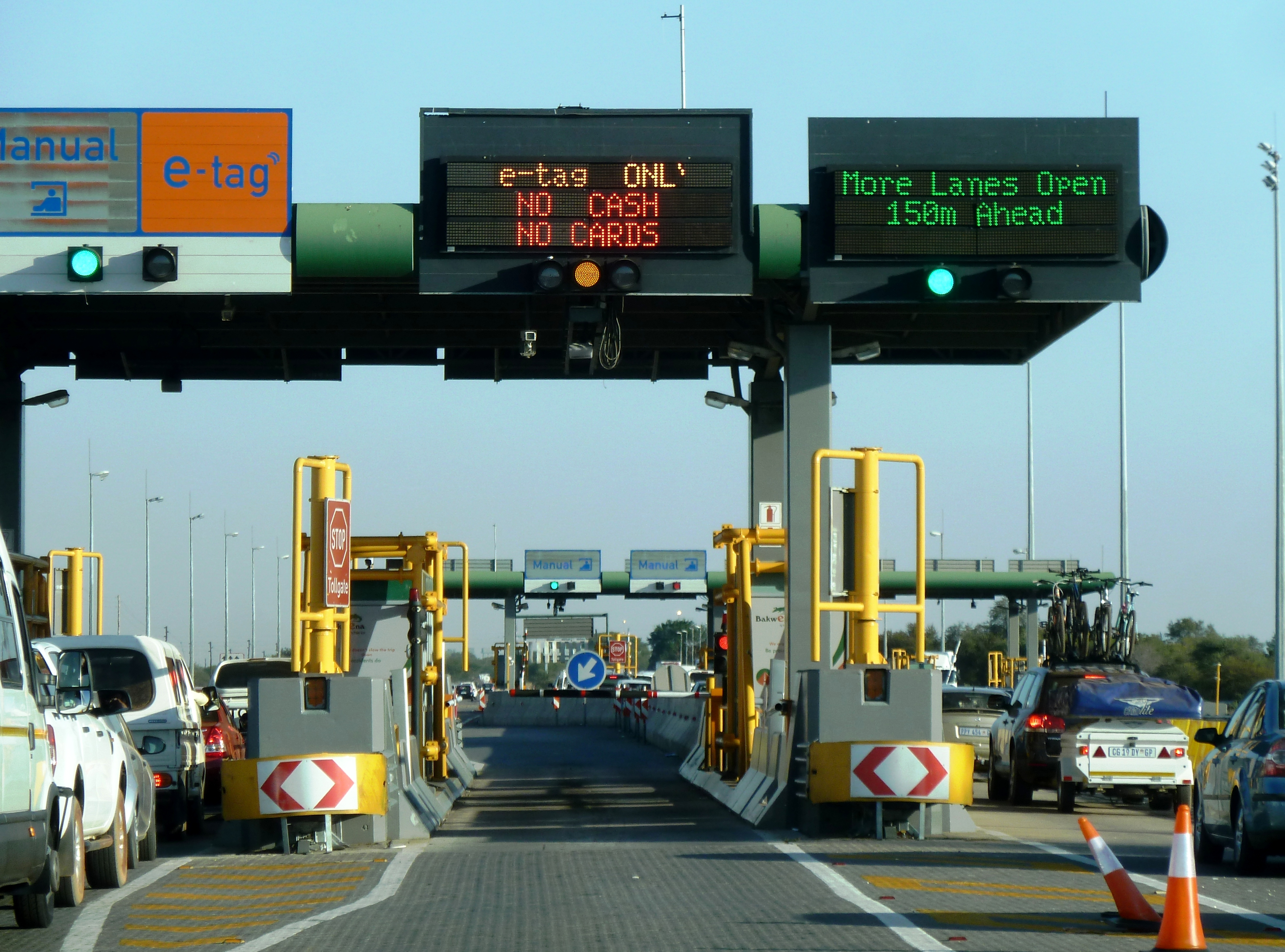 e-Tag lane at the Carousel Toll Plaza on the N1-south in northern Gauteng, South Africa